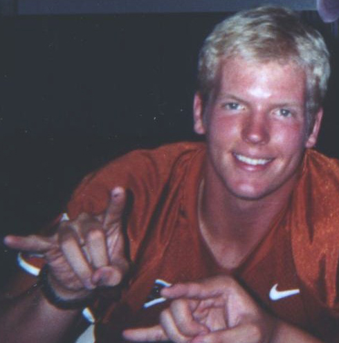 Simms posing with a fan during Fan Appreciation Day in 2002